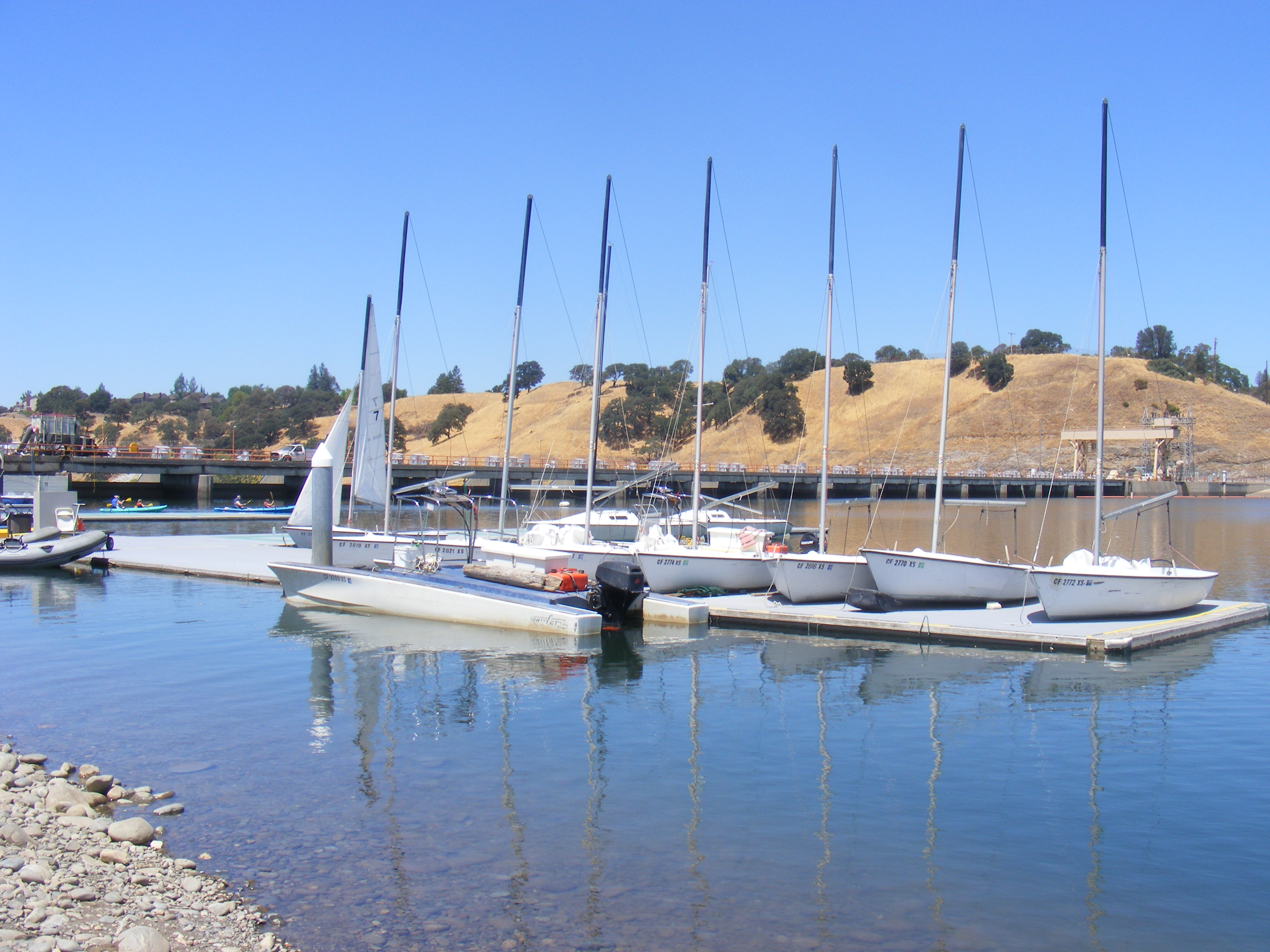 A photo of the up-river side of Nimbus Dam several miles from Folsom Dam in California. In the forground you can see the small marina near the dam. Photo taken July 30, 2008. Notes If you are a publisher and would like to use these images under a different license please contact me and we can negotiate different terms. You can find my entire image collection here: User:J.smith/gallery